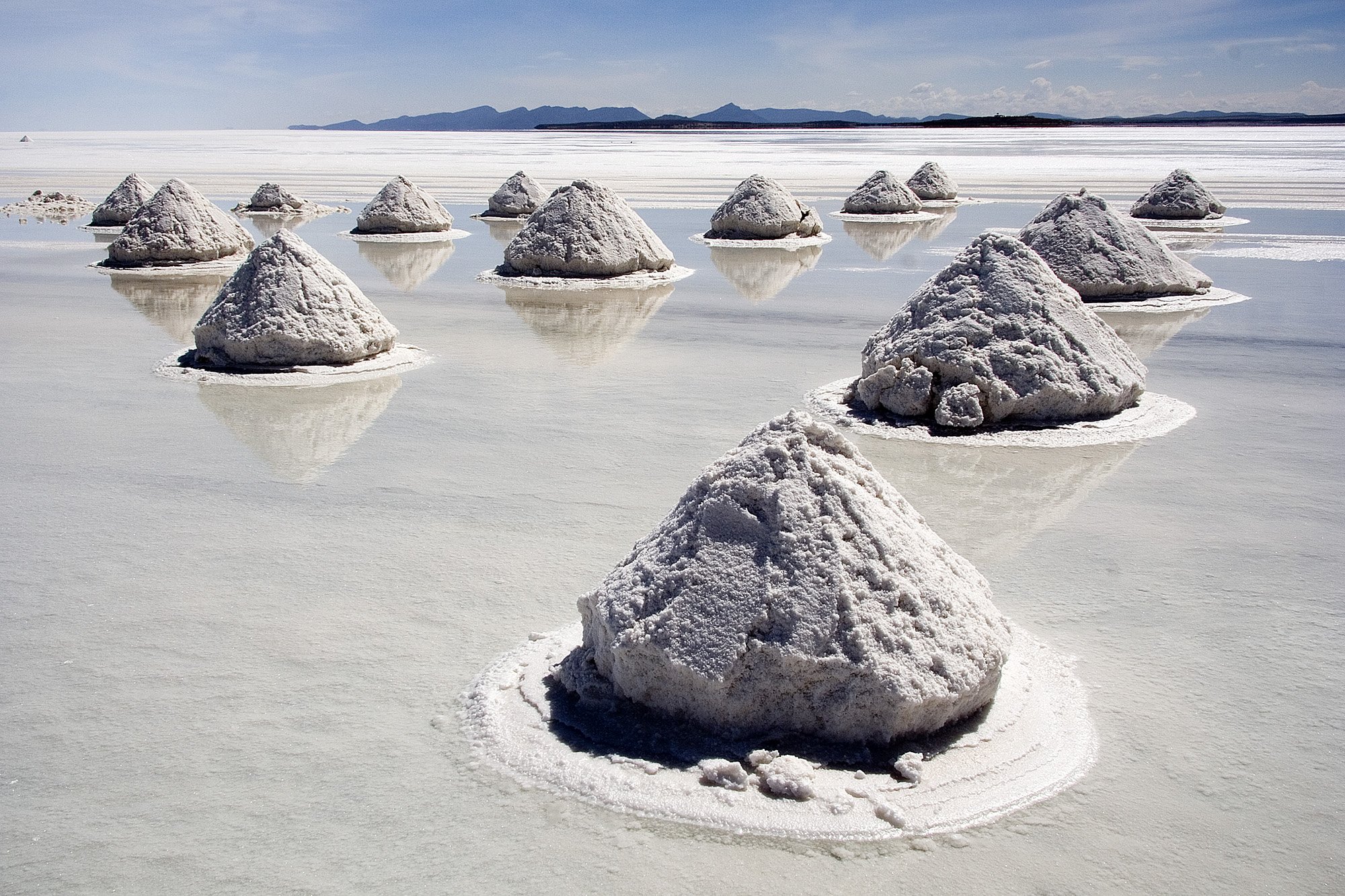 Piles of Salt on the Salar de Uyuni, Bolivia.